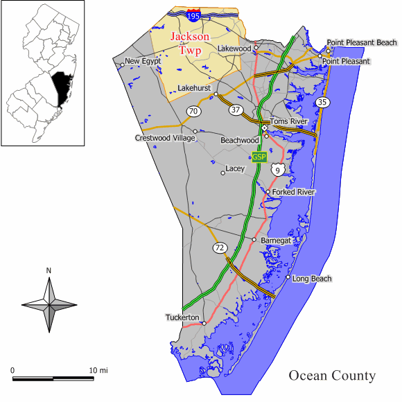 Source: Jim Irwin Original work by Jim Irwin, December 2005.